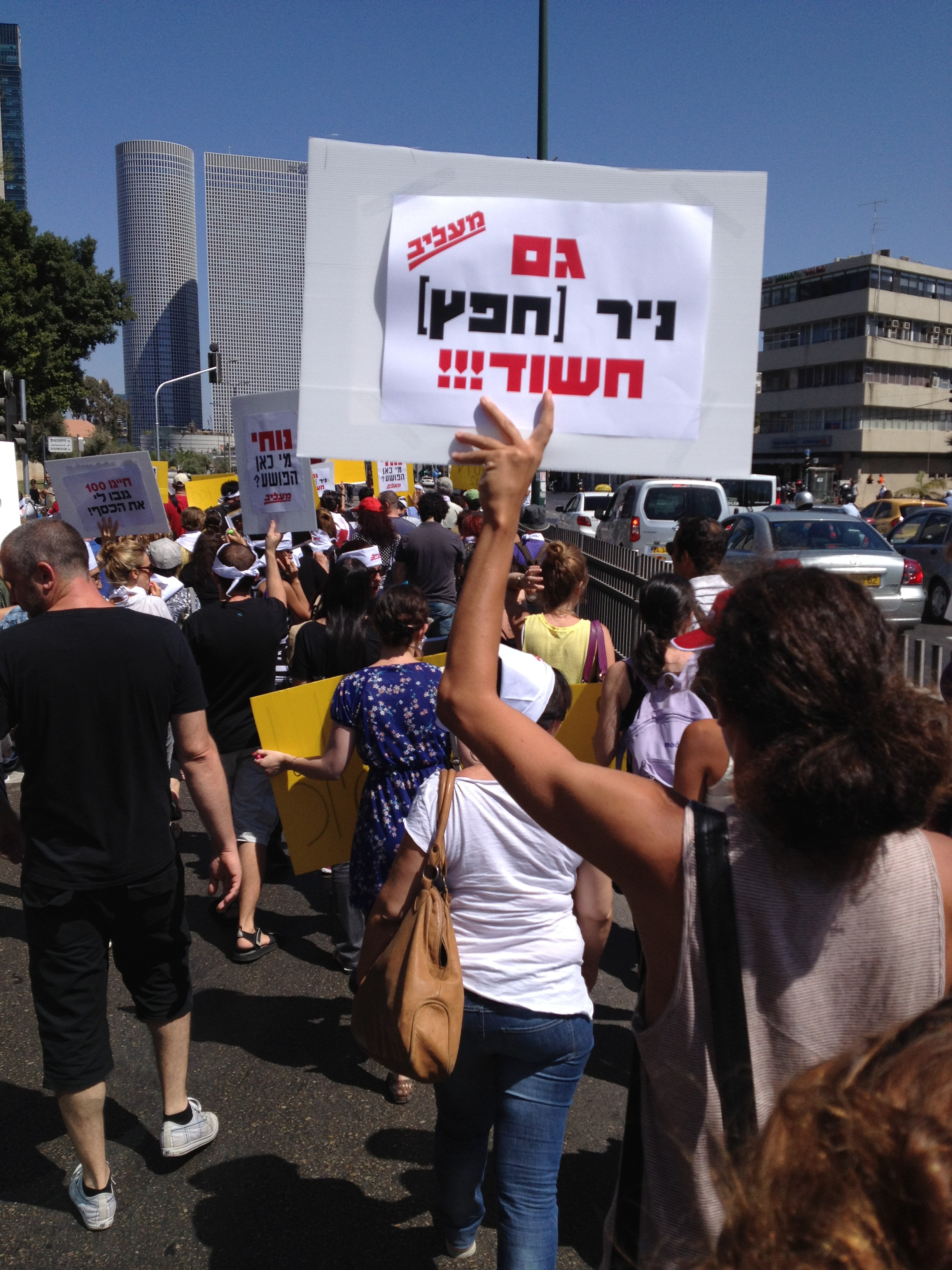 Maariv Workers who marched towards the IDB offices in the Azrieli centre in Tel Aviv in September 2012